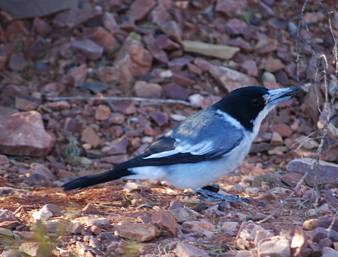 Grey Butcherbird (appears to be the Kimberly form) - (Cracticus torquatus), Wilpena Pound, South Australia